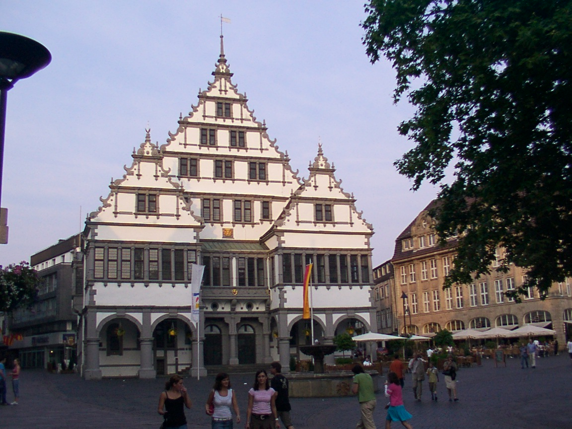 The historical townhall of Paderborn